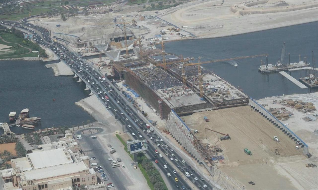 This is a photo showing the construction of the new Al Garhoud Bridge over Dubai Creek in Dubai, United Arab Emirates as seen from the air looking toward Deira on 1 May 2007. The size of the new bridge is evident by looking at the current bridge and the future bridge.